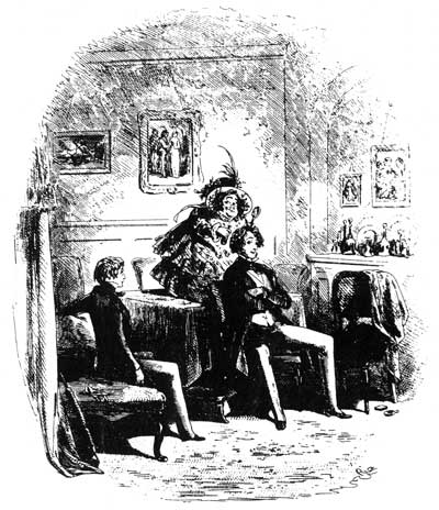 David Copperfield, I make the acquaintance of Miss Mowcher by Phiz